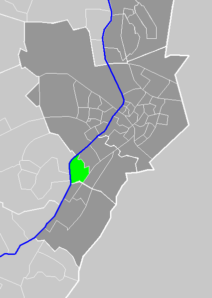 Locators of Venlo